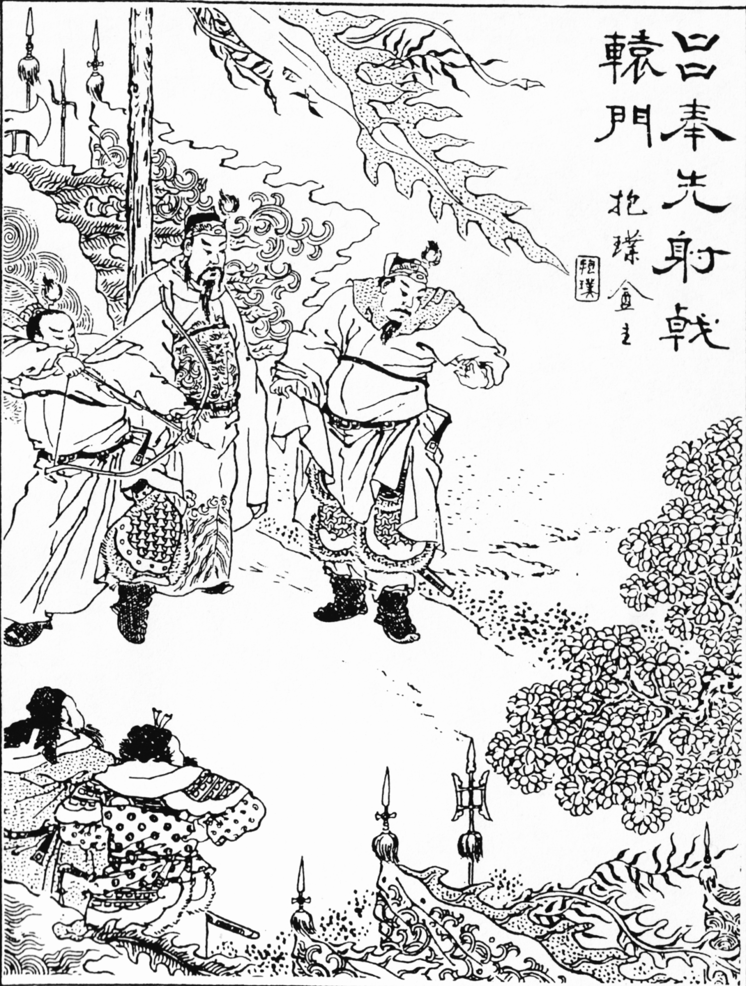 Lü Bu displays his archery talents.